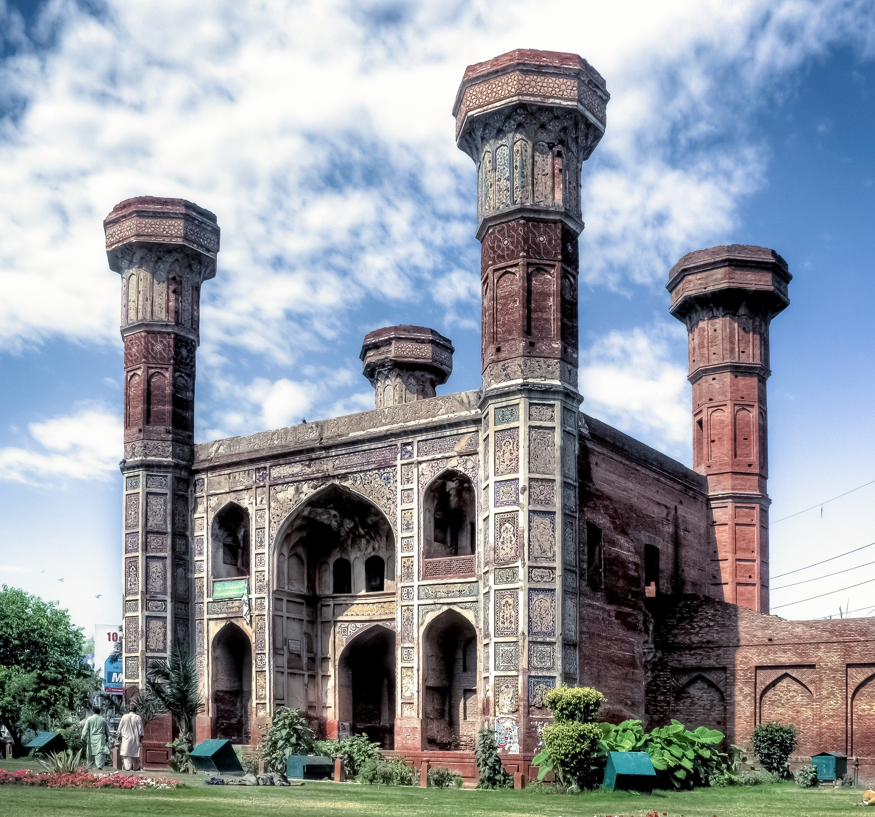 Chauburji This is a photo of a monument in Pakistan identified as the PB-46